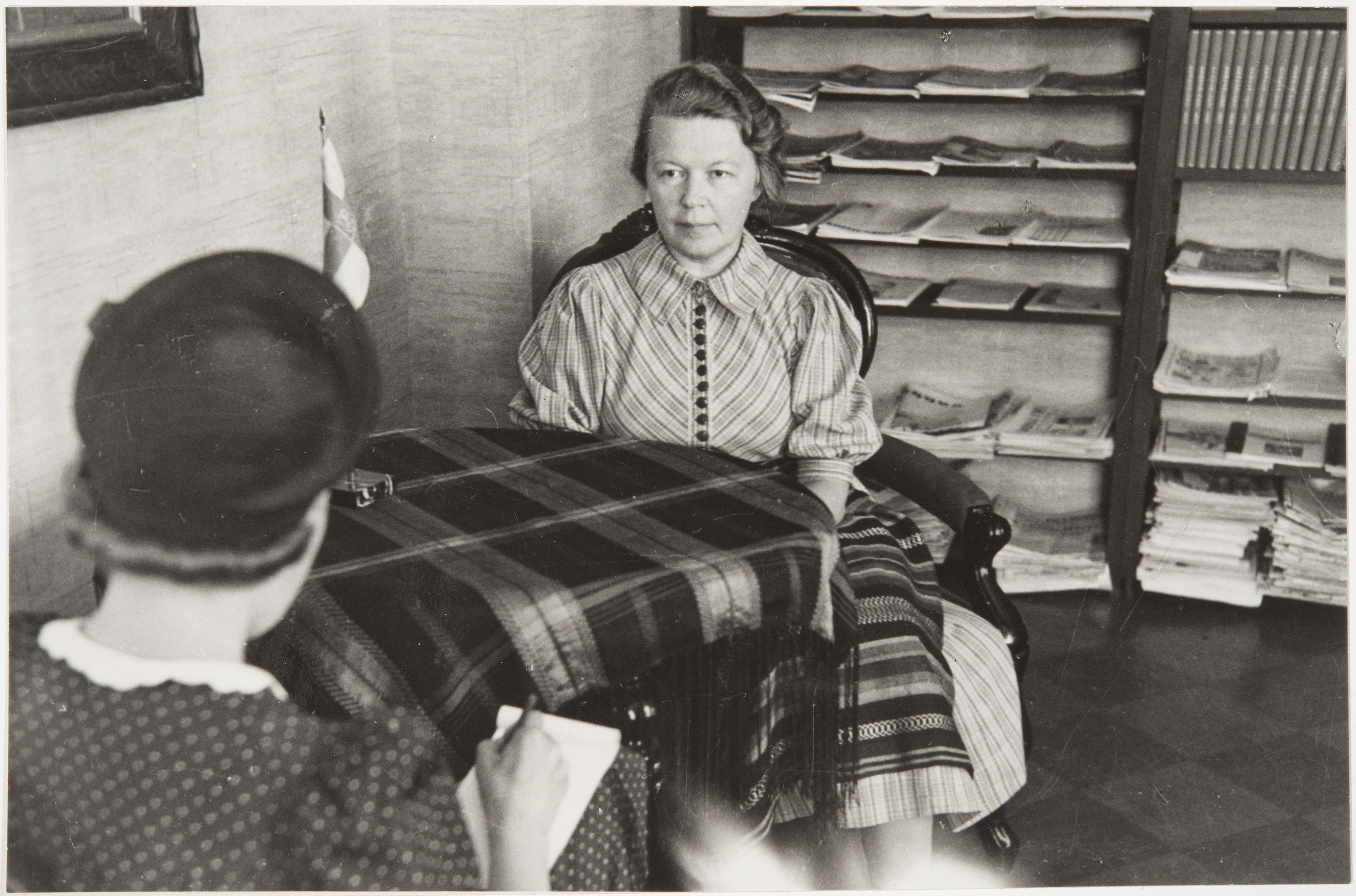 Photograph of the Finnish economist Elli Saurio (1899–1966) at an interview.